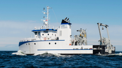 The 93' research vessel Virginia.